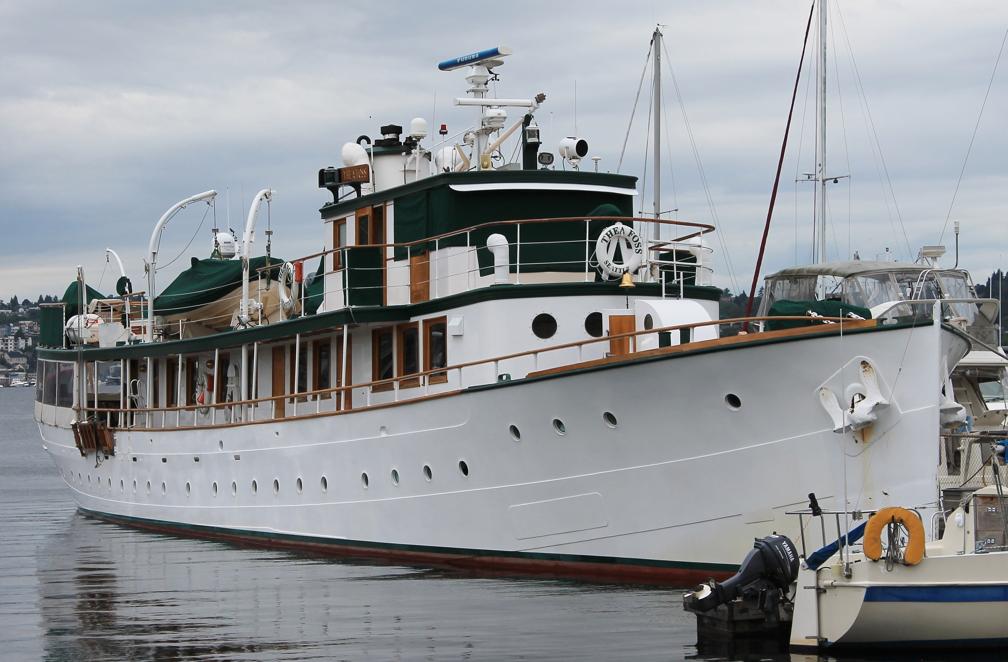 Yacht Thea Foss docked on Lake Union in Seattle, 11 August 2019.